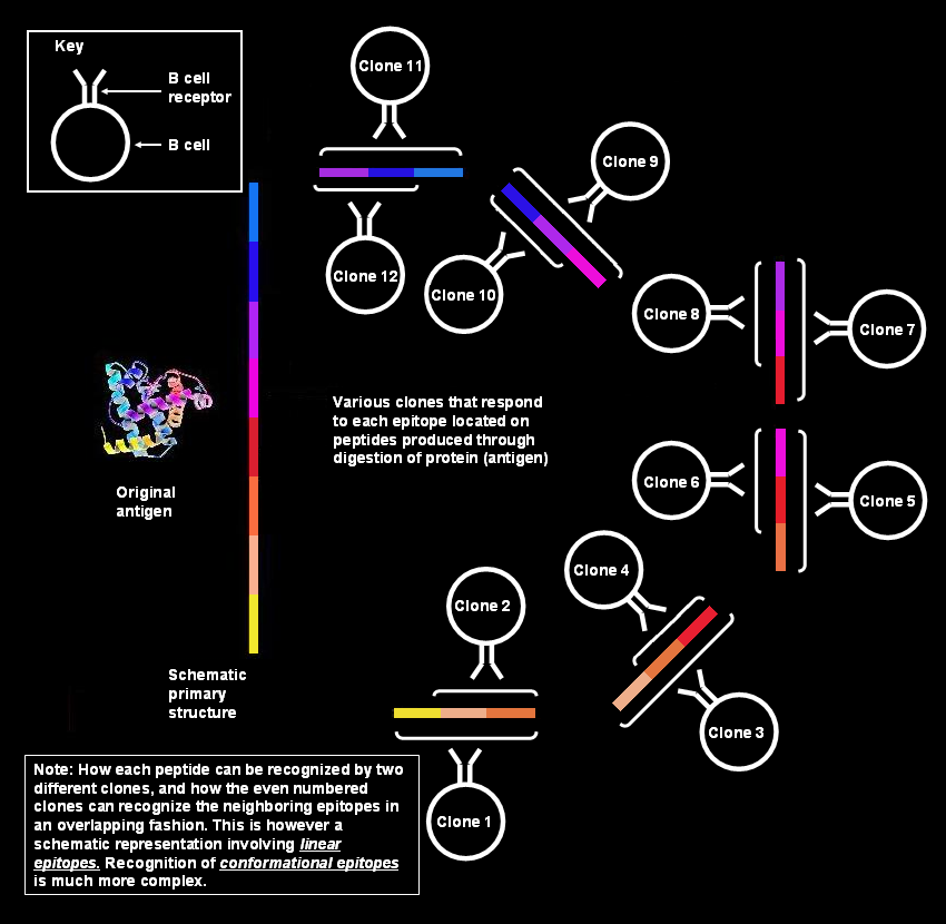 Schematic diagram showing polyclonal response by B cells against linear epitopes